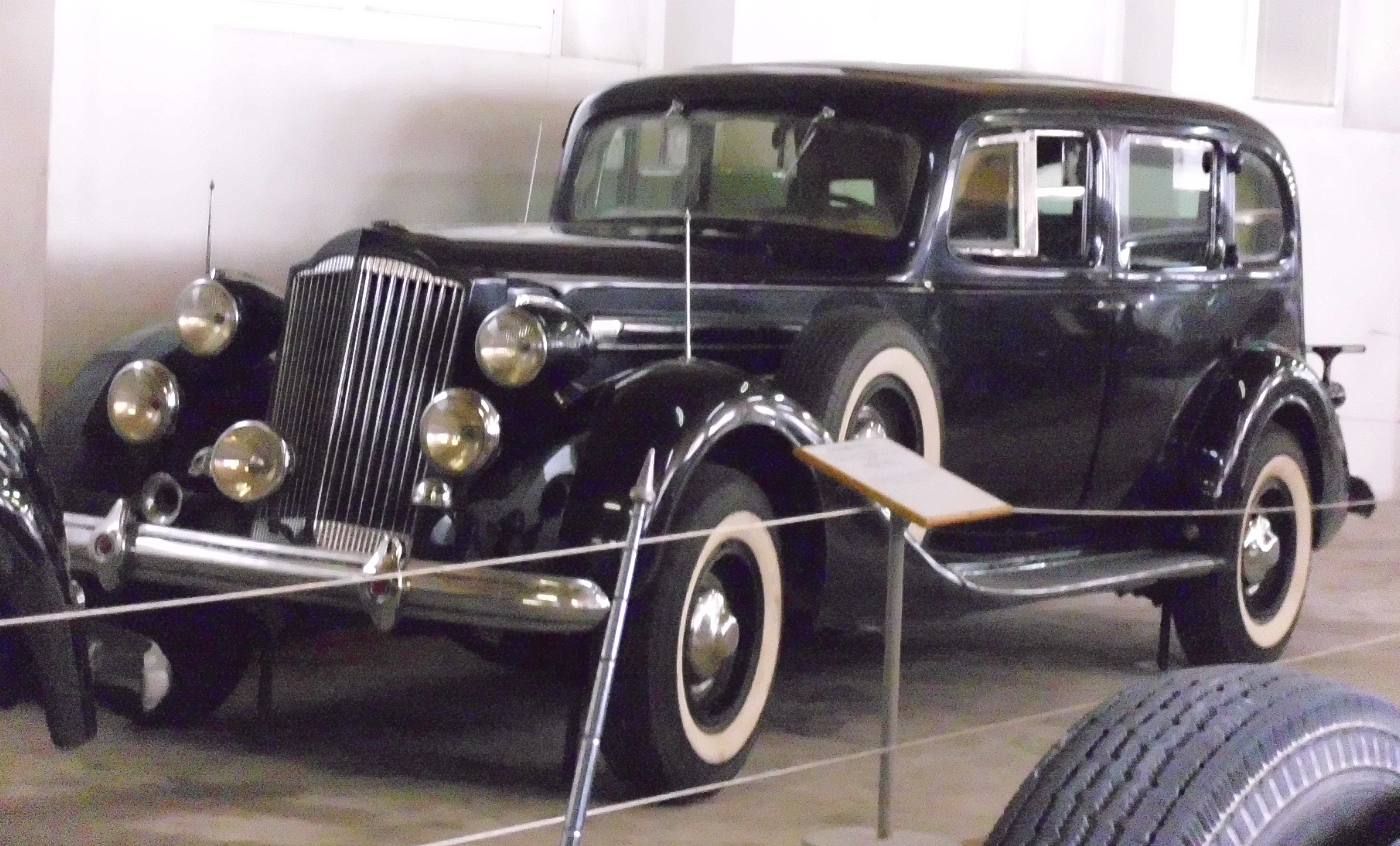 Packard Twelve 1506 Touring Sedan von 1937